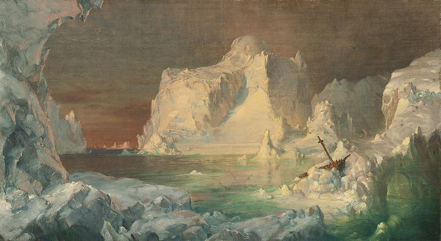 Final Study for the Icebergs 1860. Oil on canvas laid down on masonite, 10 × 18⅛ in. (25.4 × 46 cm). Colby College Museum of Art, Waterville, Maine, The Lunder Collection, 001.2014. (Media source: Raab, Jennifer, Frederic Church: The Art and Science of Detail, 2015, p. 119.)